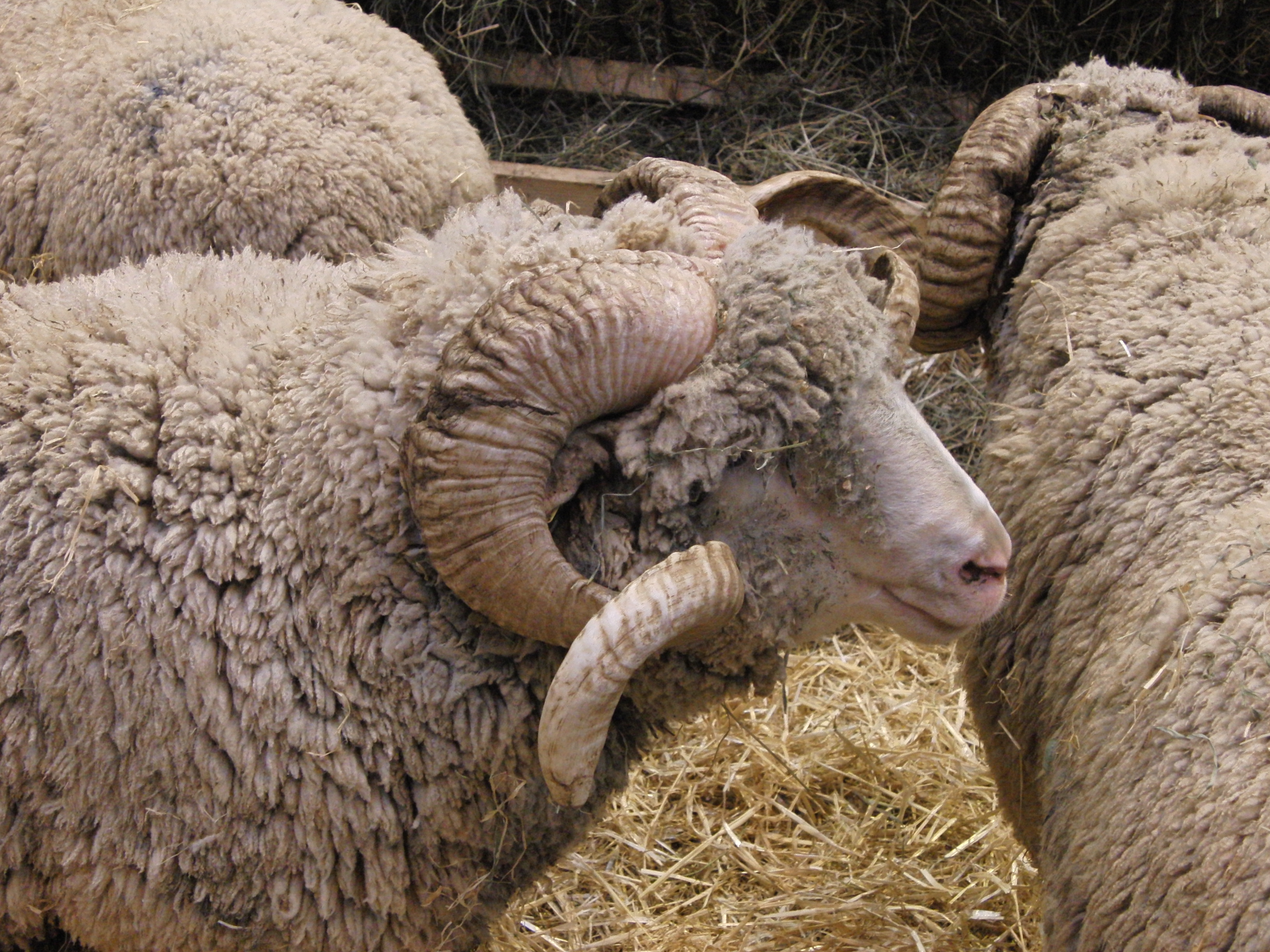 Mérinos d'Arles sheep's head - Salon international de l'agriculture 2011, Paris, France